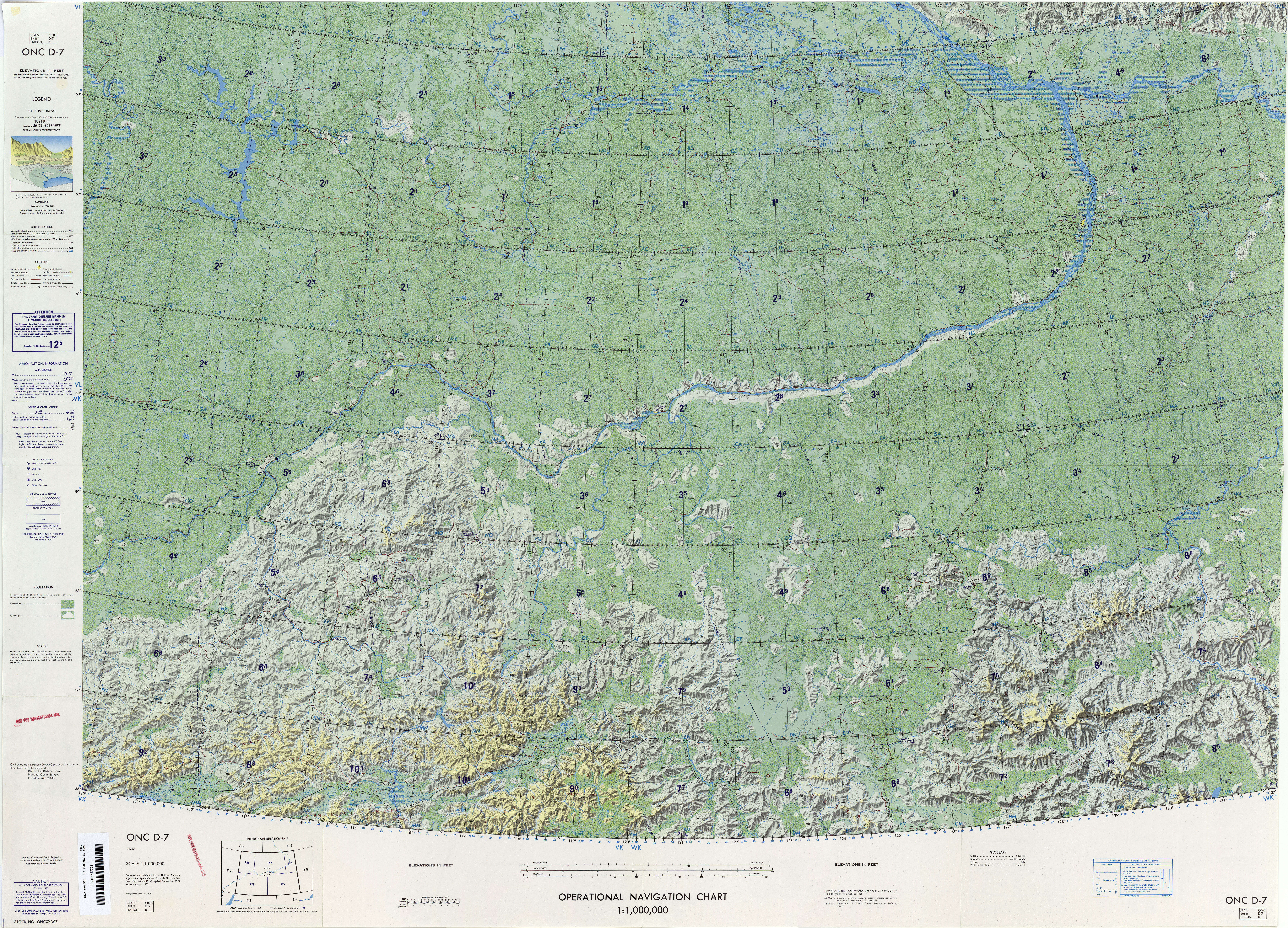 1:1,000,000 scale Operational Navigation Chart, Sheet D-7, 6th edition. Covers the U.S.S.R. Lambert Conformal Conic Projection.